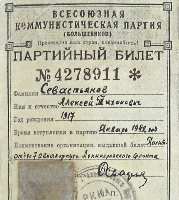 Communist Party of USSR membership card